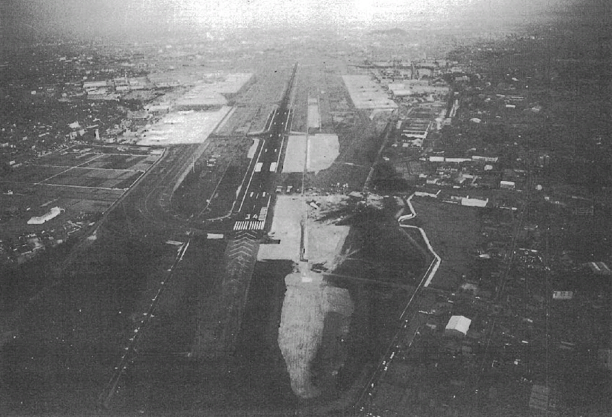 Flight 140 ultimately stalled and crashed into the ground, killing 264 of the 271 people on board.